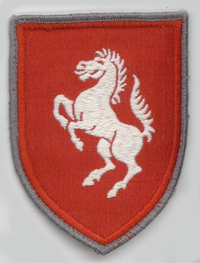 20th Tank Brigade